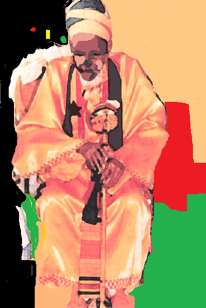 Prince Emmanuel Charles Edwards (1915 - 1994) former leader for the rastafarian house Bobo Ashanti